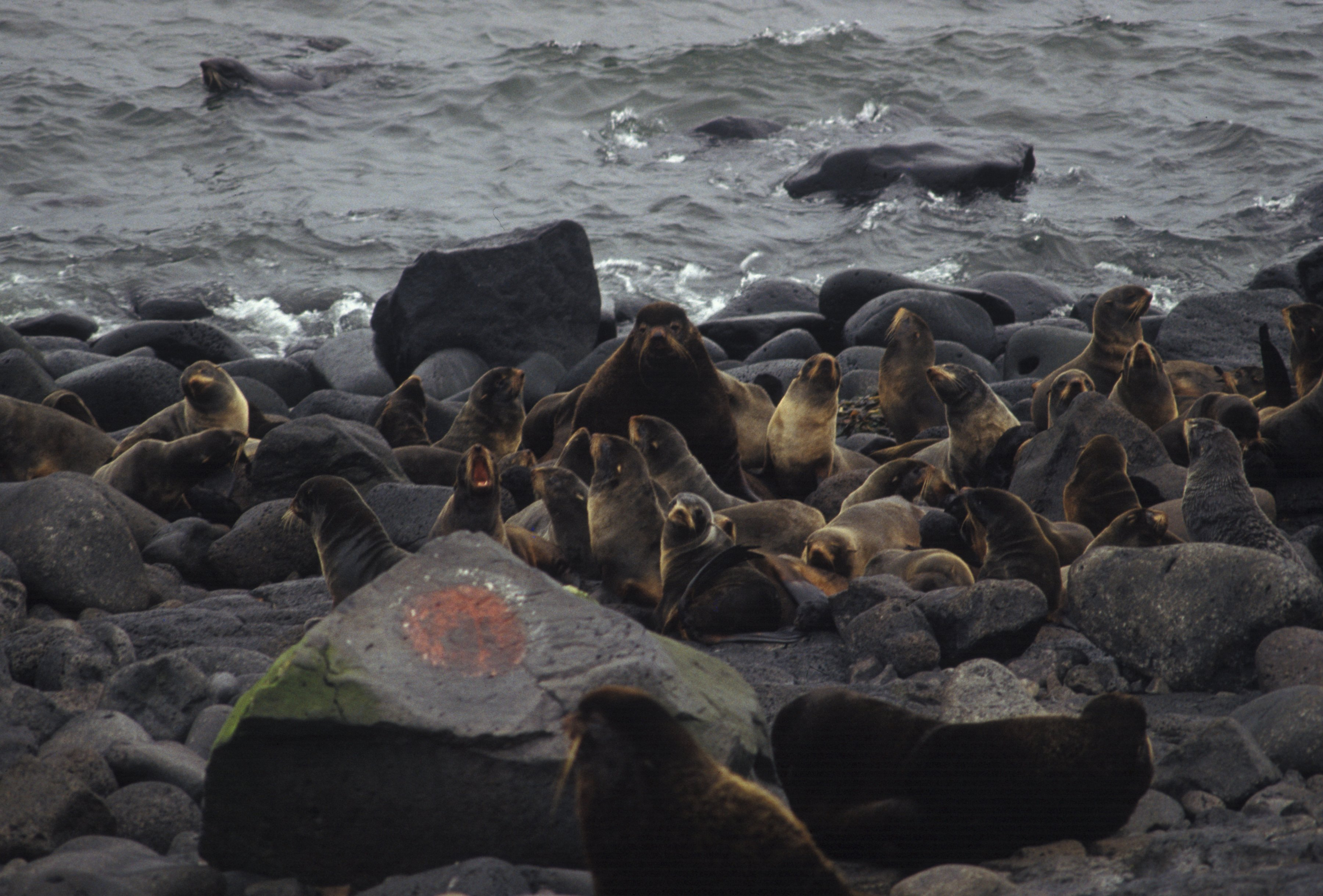 Fur seals. Alaska, Pribilof Islands, St. Paul.